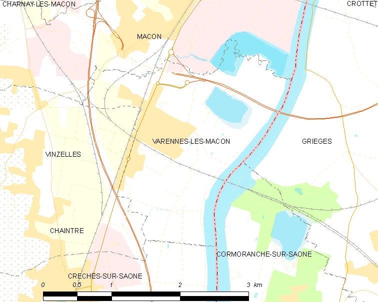 Map of French municipality